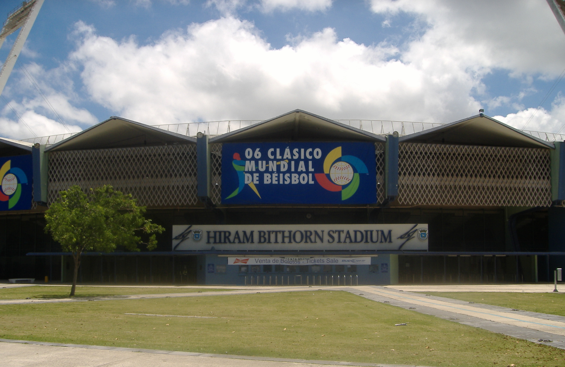 Picture of Hiram Bithorn Stadium in San Juan, Puerto Rico.